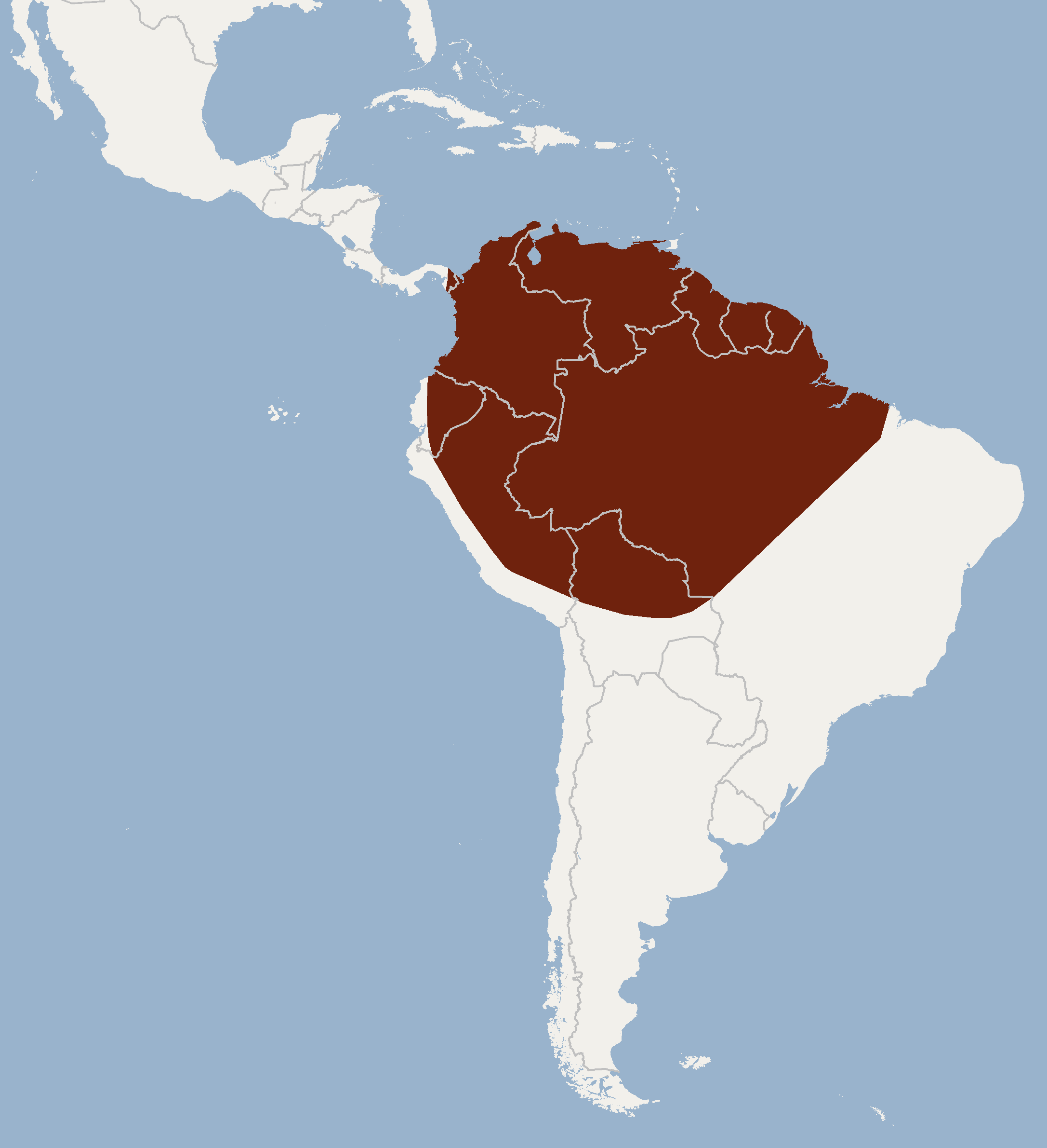 Geographical distribution of Lonchophylla thomasi according to